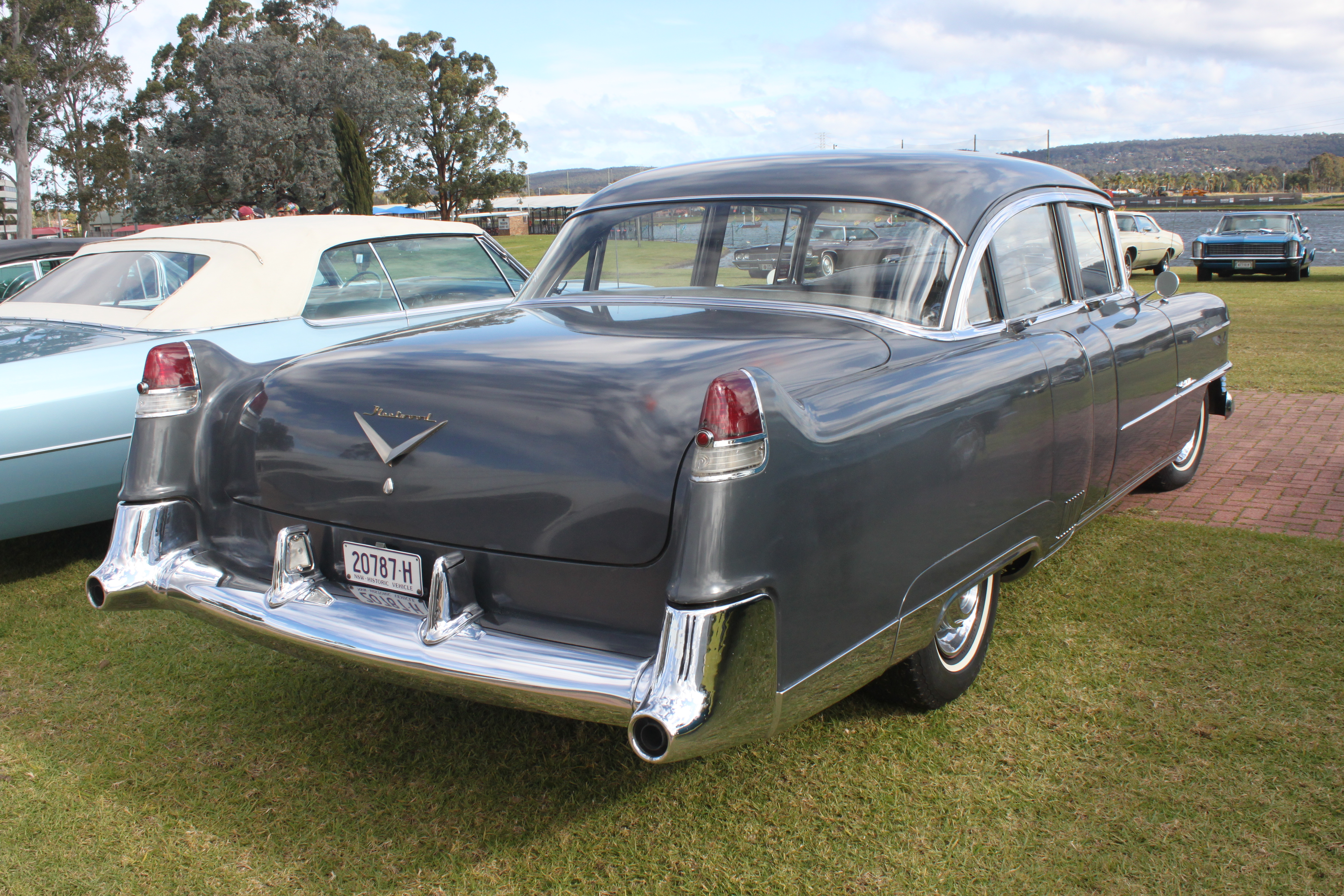 GM Display Day, Penrith Panthers, NSW July 2015